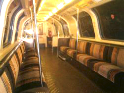 Photo of the inside of a carriage on the Glasgow Underground taken by me, User:Edward